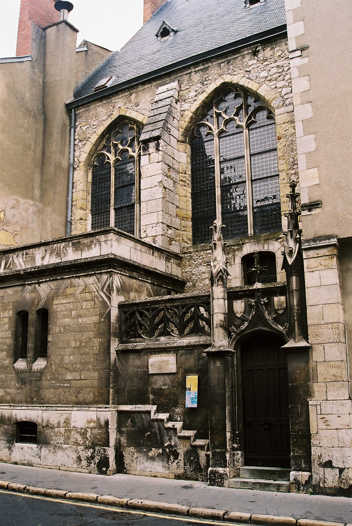 Salle des Thèses of the old university of Orlèans